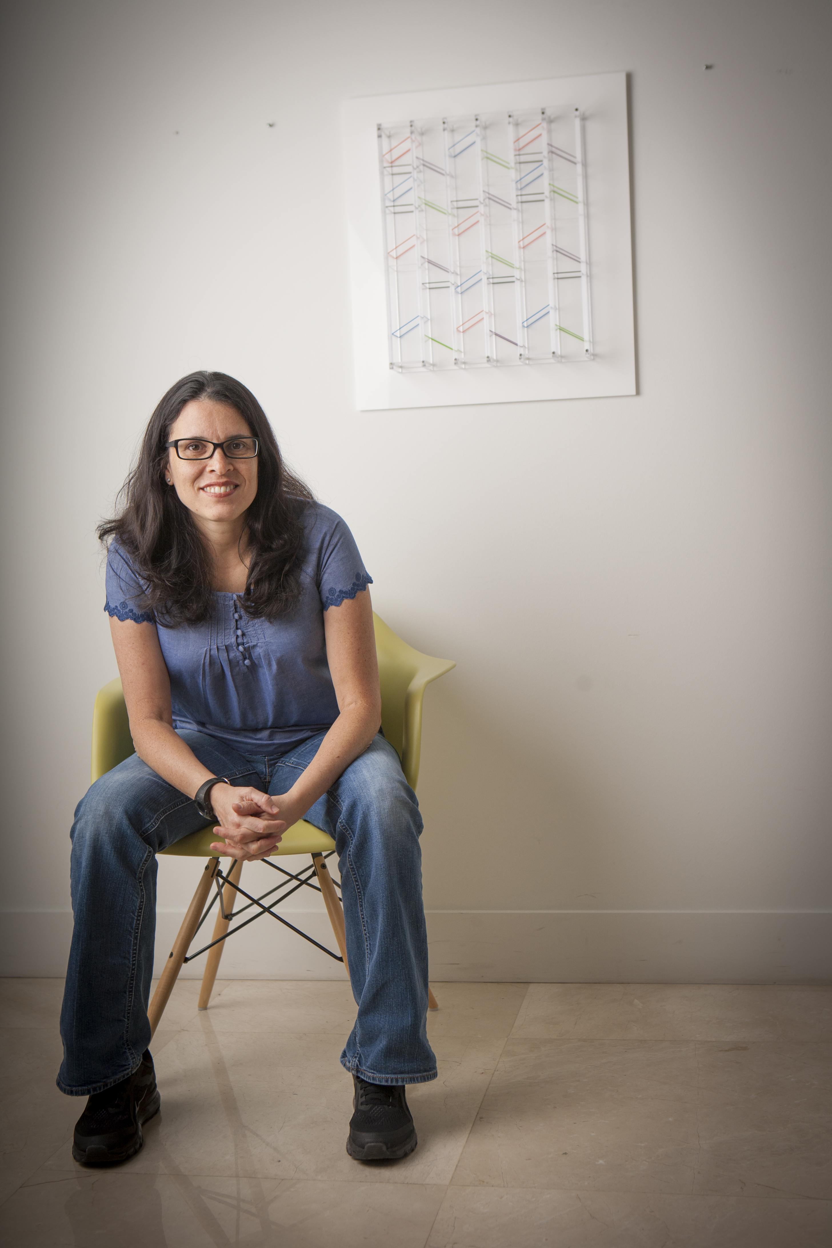 photo of Ines Silva